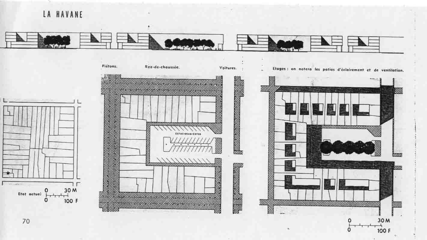 Scheme Havana Plan Piloto, collective housing blocks planned for Old Havana once the colonial buildings have been demolished.